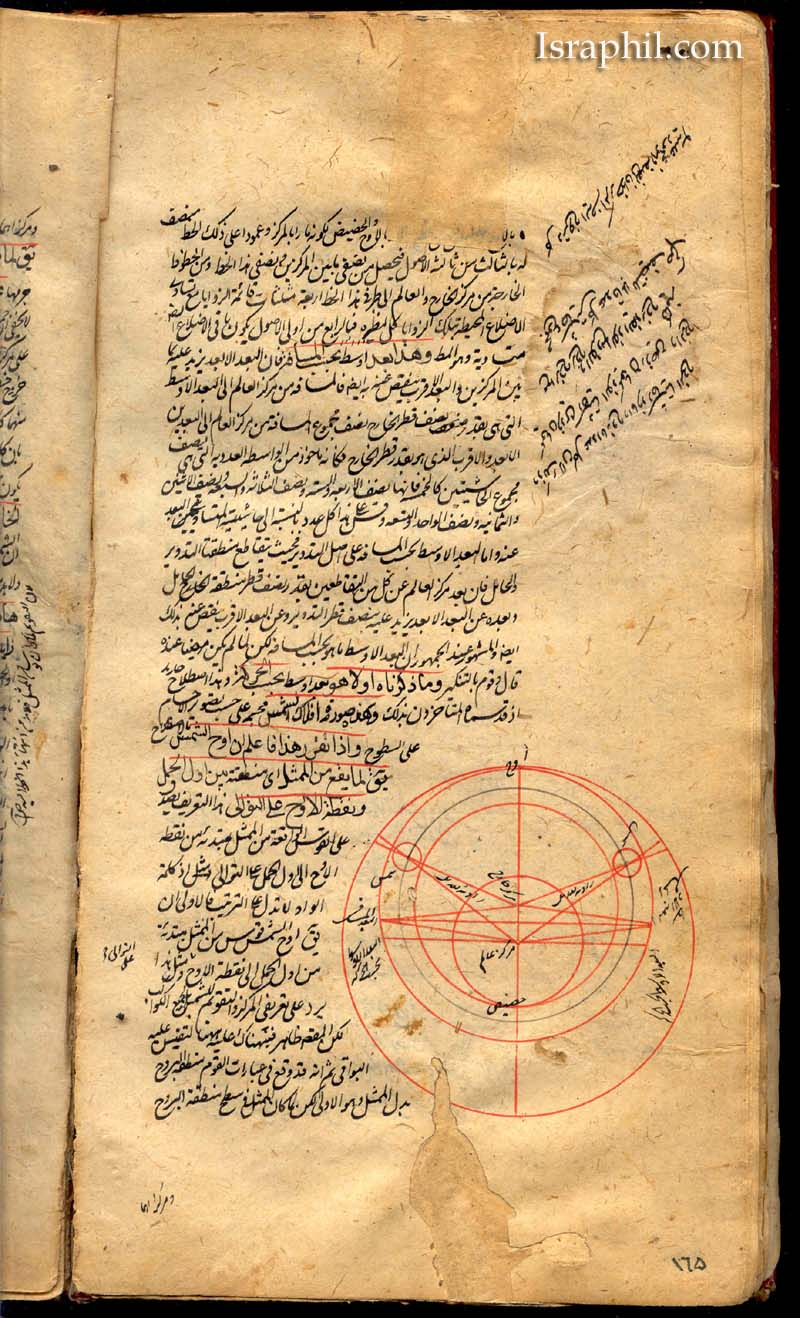 Sharh Tadhkirah al-Tusi, a manuscript of Birjandi, copied in the beginning of 17th century.